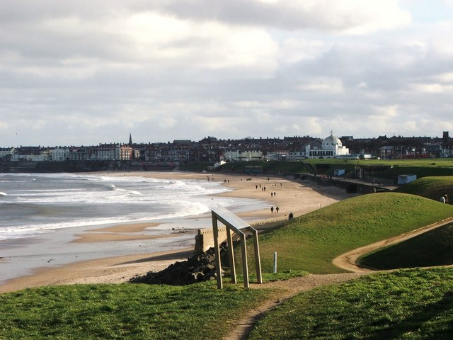 The Links View along coastline from Links car park, Whitley Bay